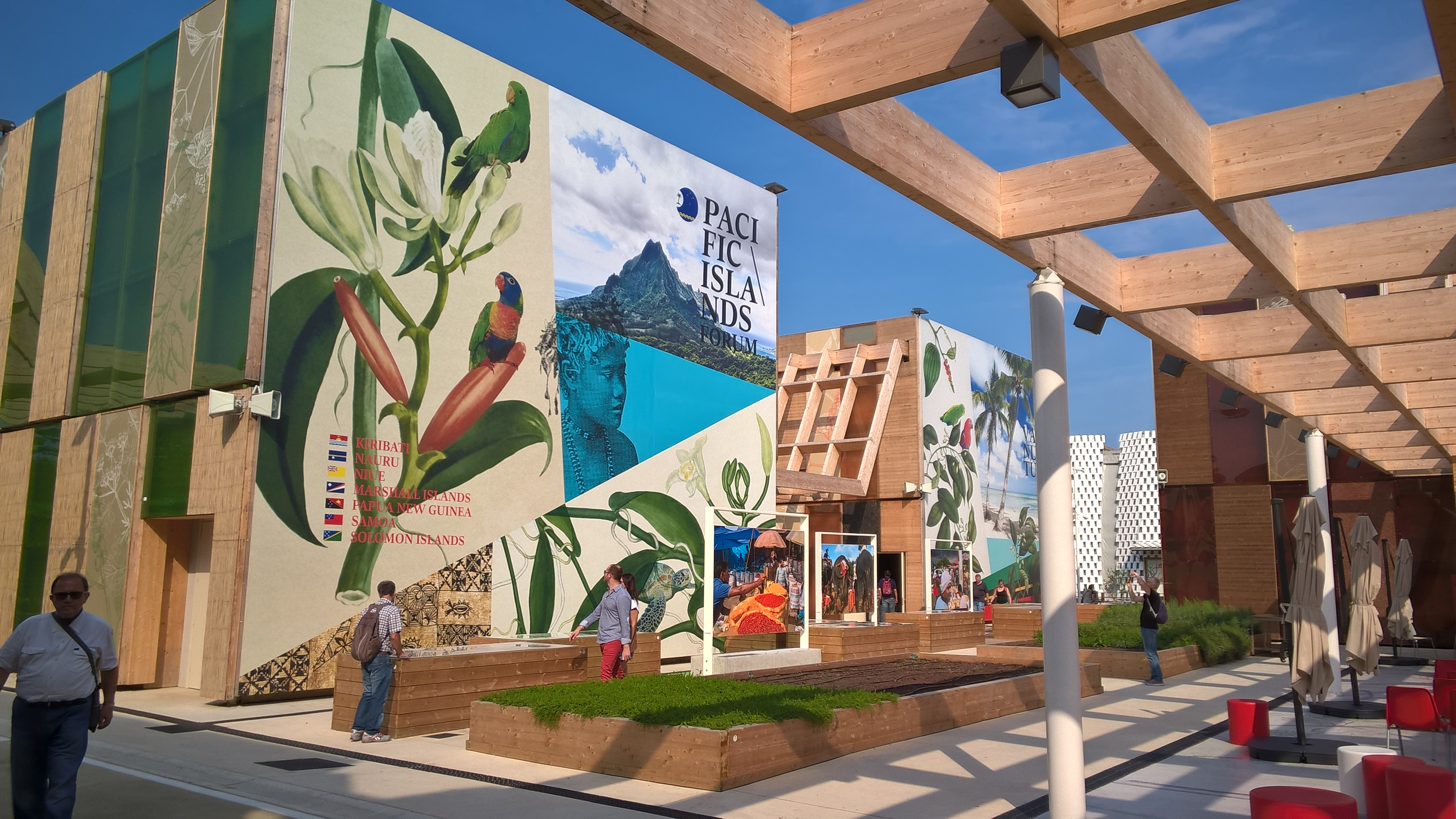 Spieces cluster at Expo 2015 Milano